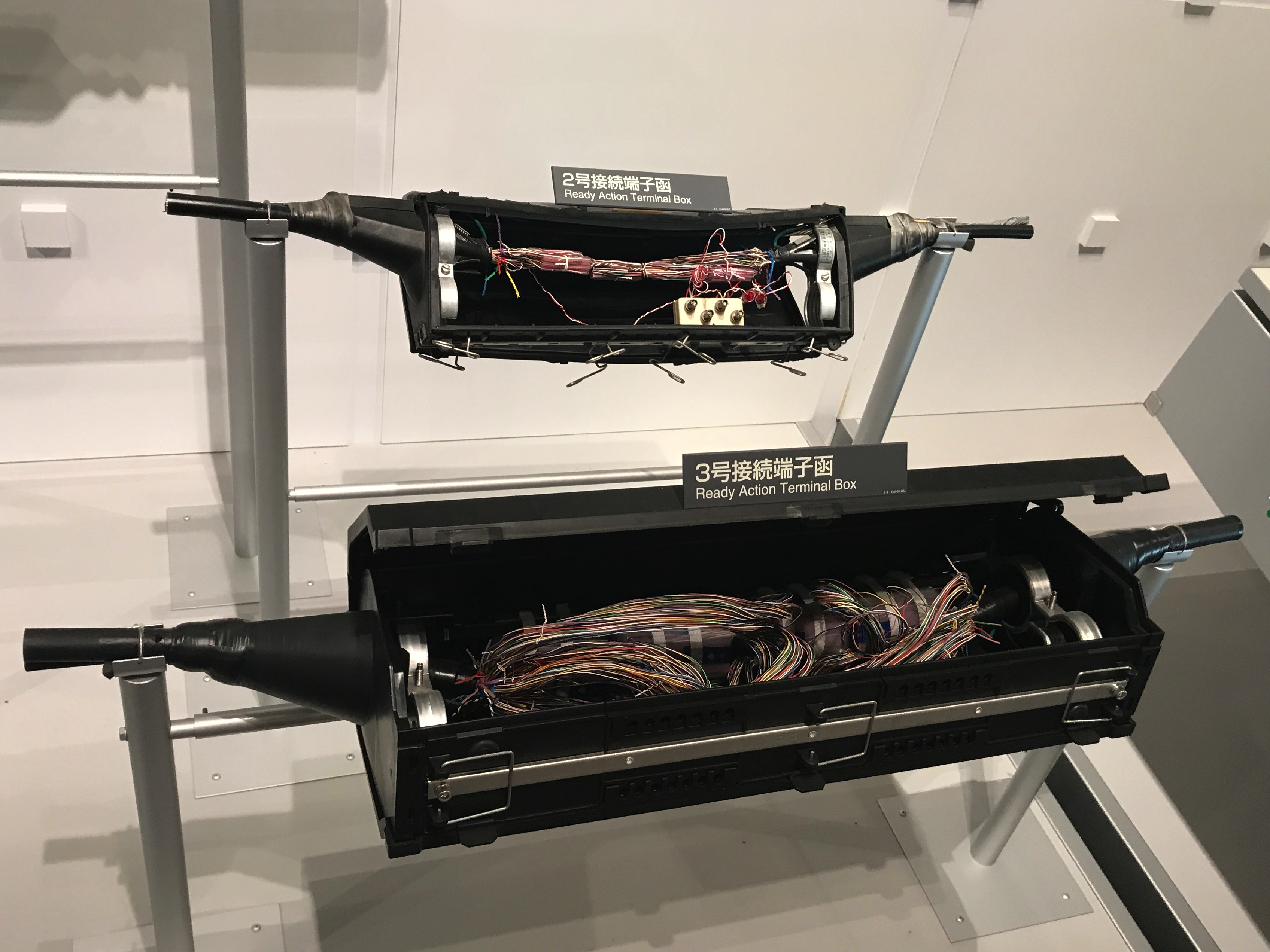 Reay action terminal Box by NTT, Japan. (NTT Technical history museum Collection)